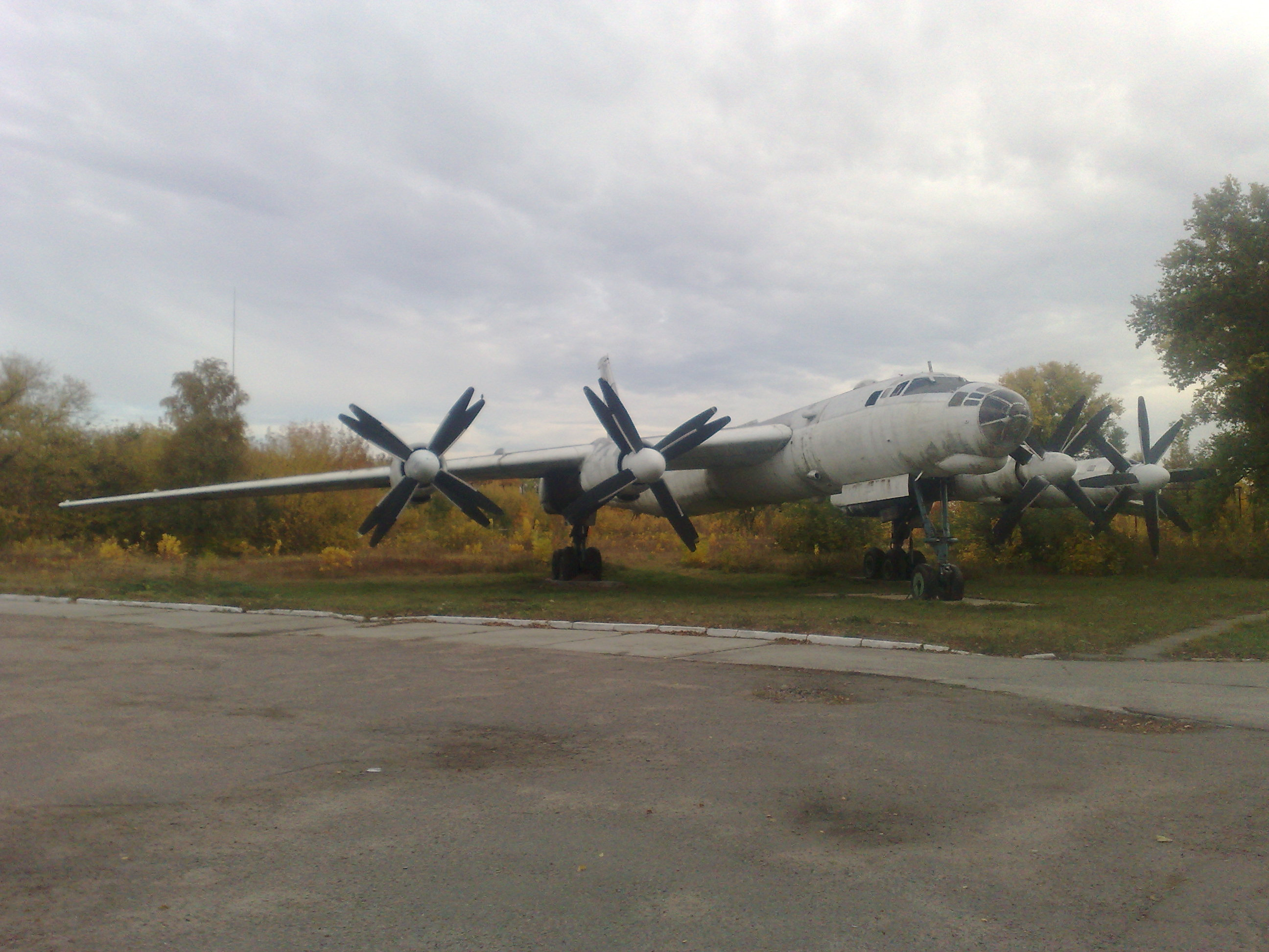 Tu-95 at Uzin airbase, 2009.